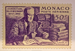 Six fingers misprint